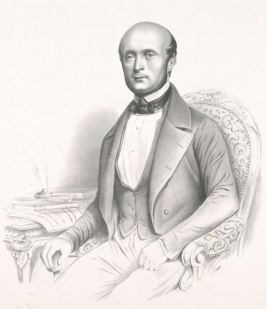 Italian composer and music teacher Giuseppe Concone (1801-1861) by Marie-Alexandre Alophe (1812-1883).